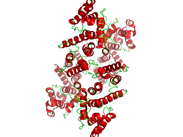 Structure of the N-terminal actin-binding domain of human dystrophin (PDB:1dxx)